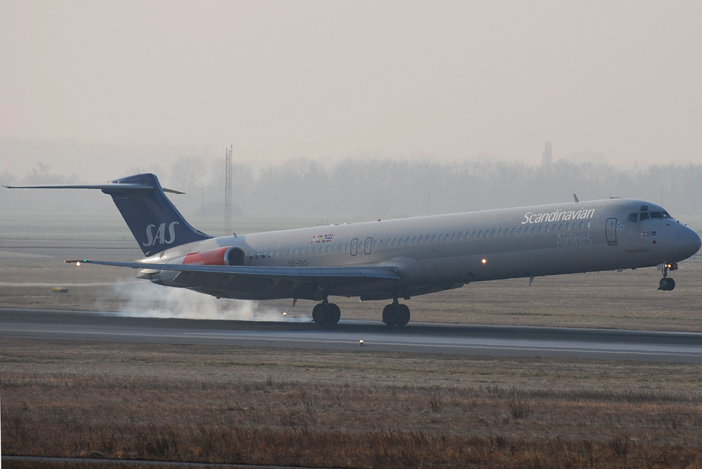 SE-DIS